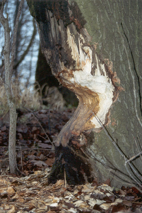 A Tree with beaver (Castor fiber) gnaw-marks, near Czarna River, Staszów, Poland.